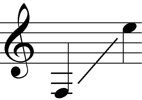 Range of an alto voice